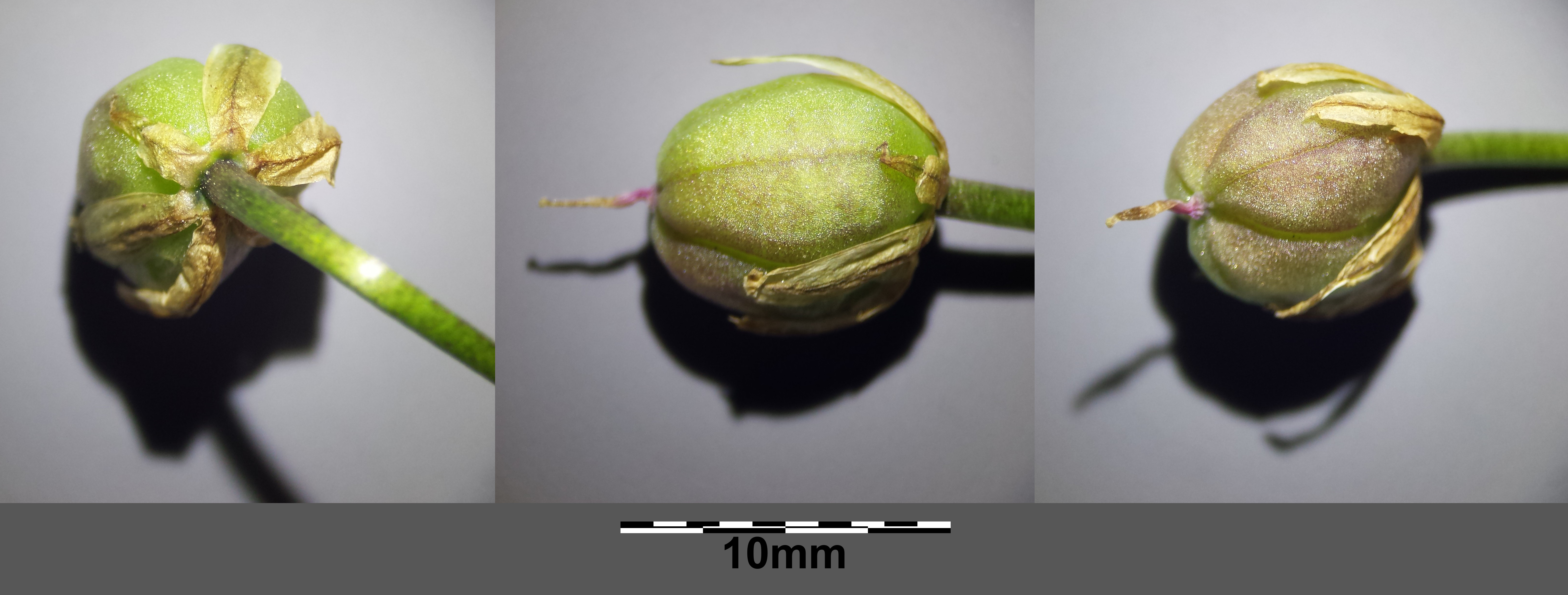 Fruit Taxonym: Scilla spetana ss Fischer et al. EfÖLS 2008 ISBN 978-3-85474-187-9 Location: Kreuttal, district Mistelbach, Lower Austria - ca. 220 m a.s.l. Habitat: dedicious forest